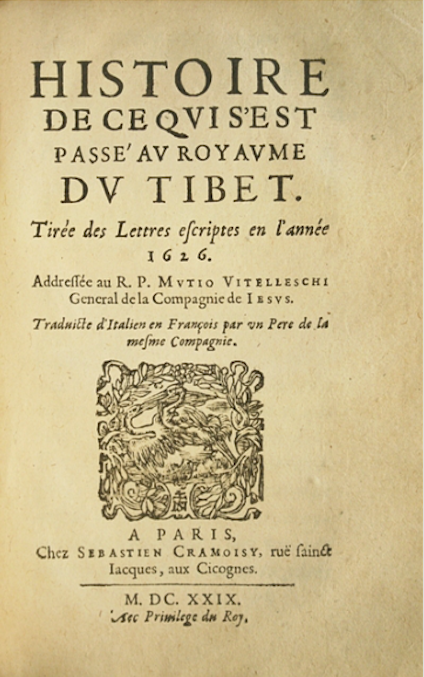 French translation of first report of Antonio de Andrade